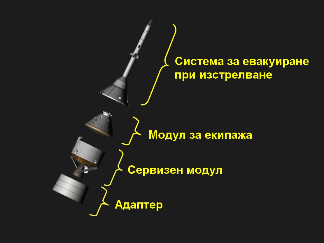 Design of the Orion spacecraft with Blgarian labels.